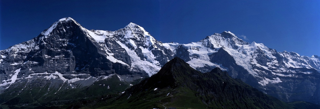 Eiger, Mönch and Jungfrau, view from Männlichen